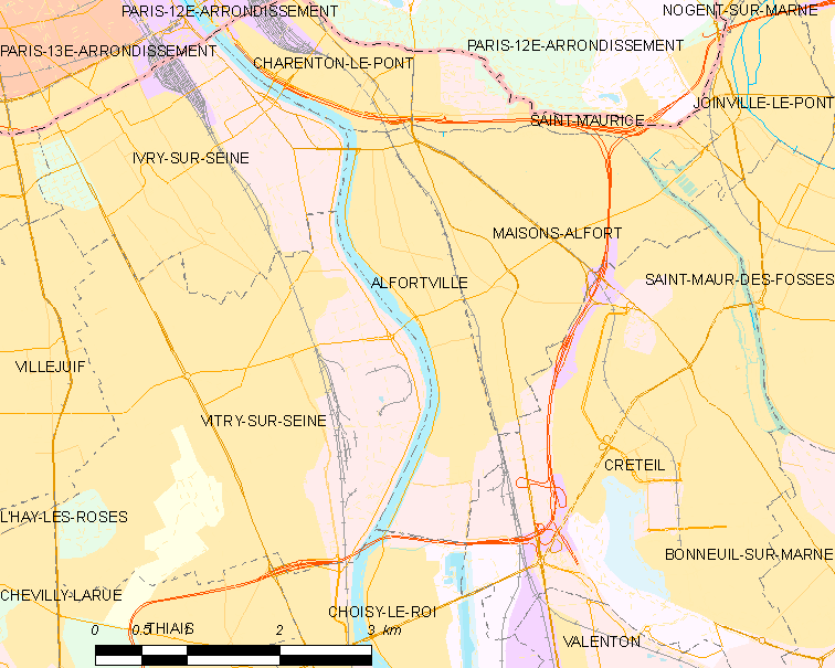 Map of French municipality Alfortville